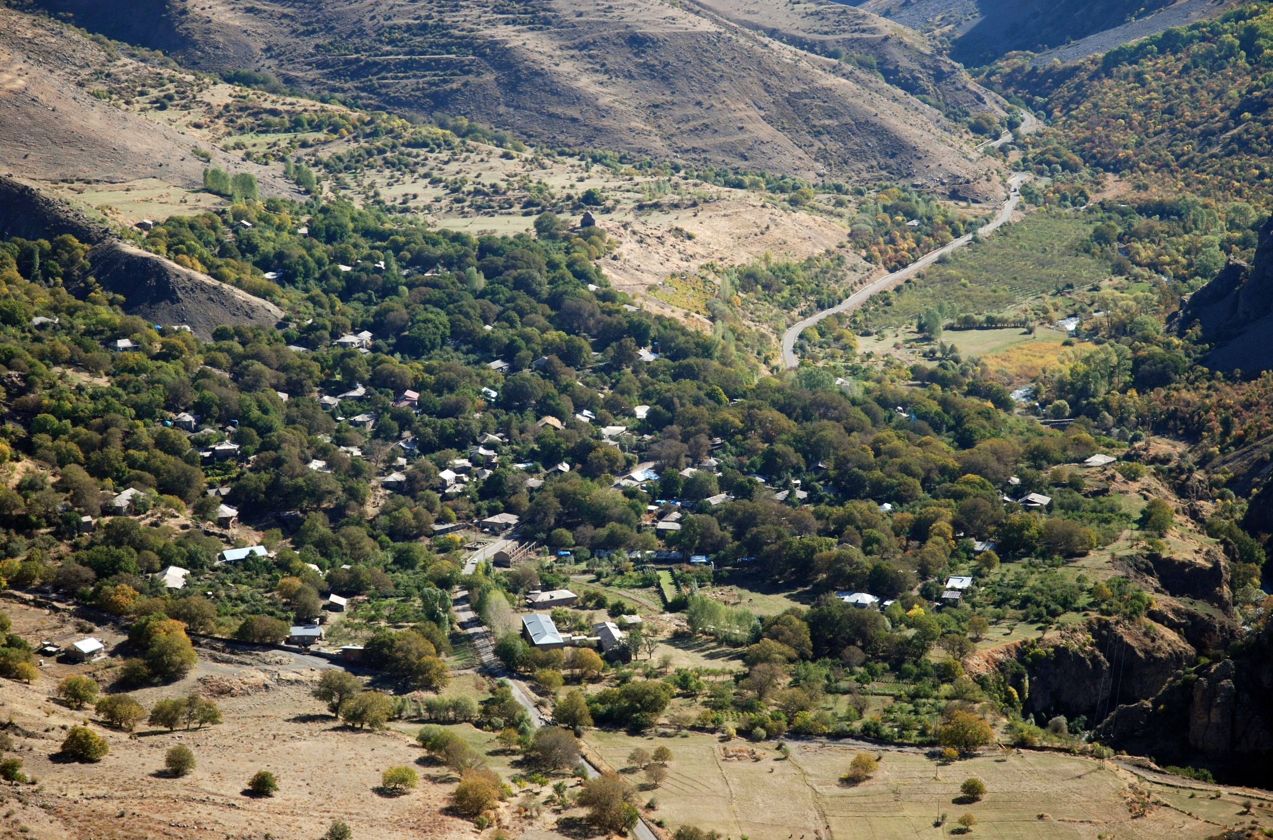 Yeghegis